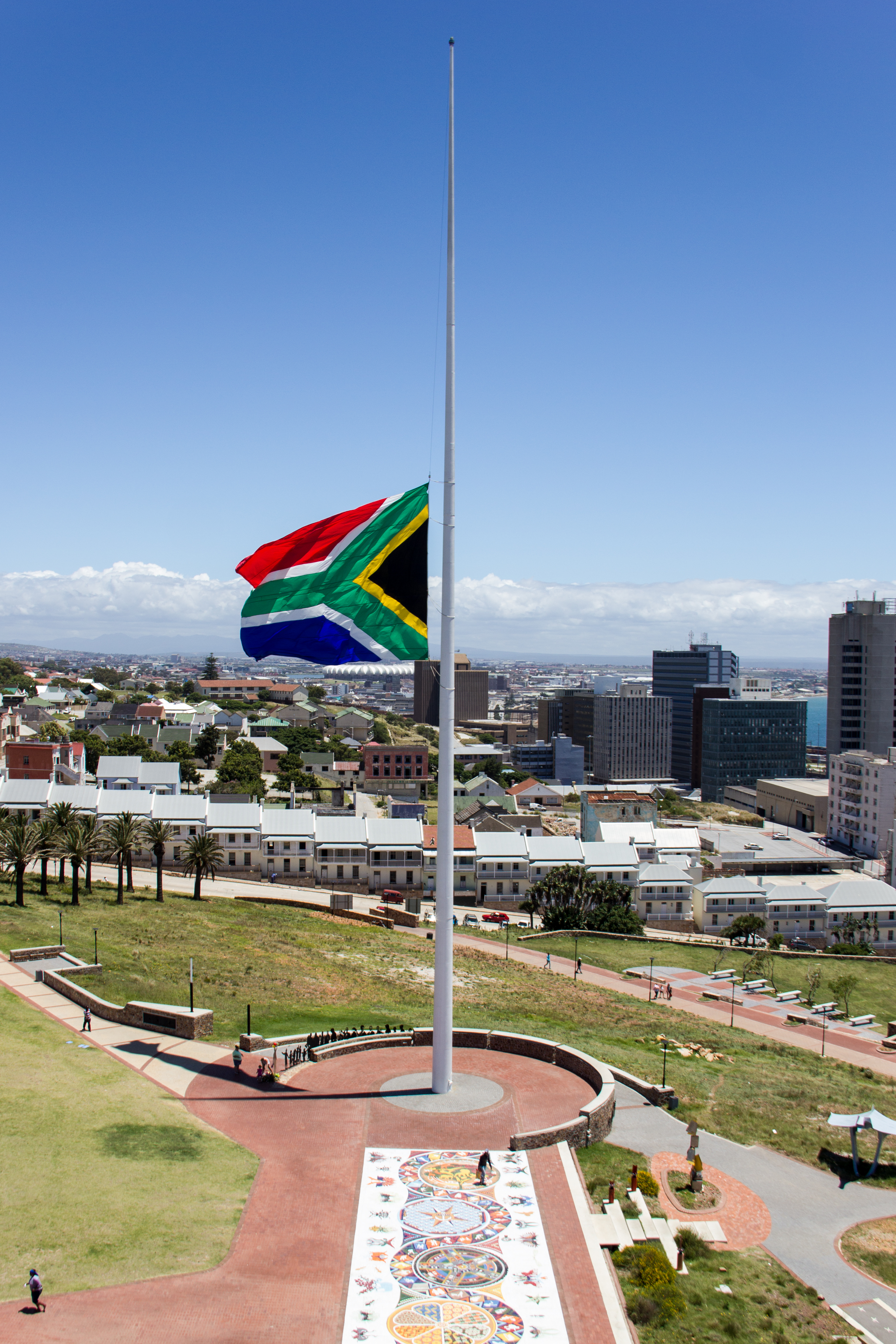 The South African Flag flying on half mast outside the Donkin Reserve in Port Elizabeth during the national mourning period for Nelson Mandela. It is said to be the tallest flagpole in Africa, and the largest South African flag in the world